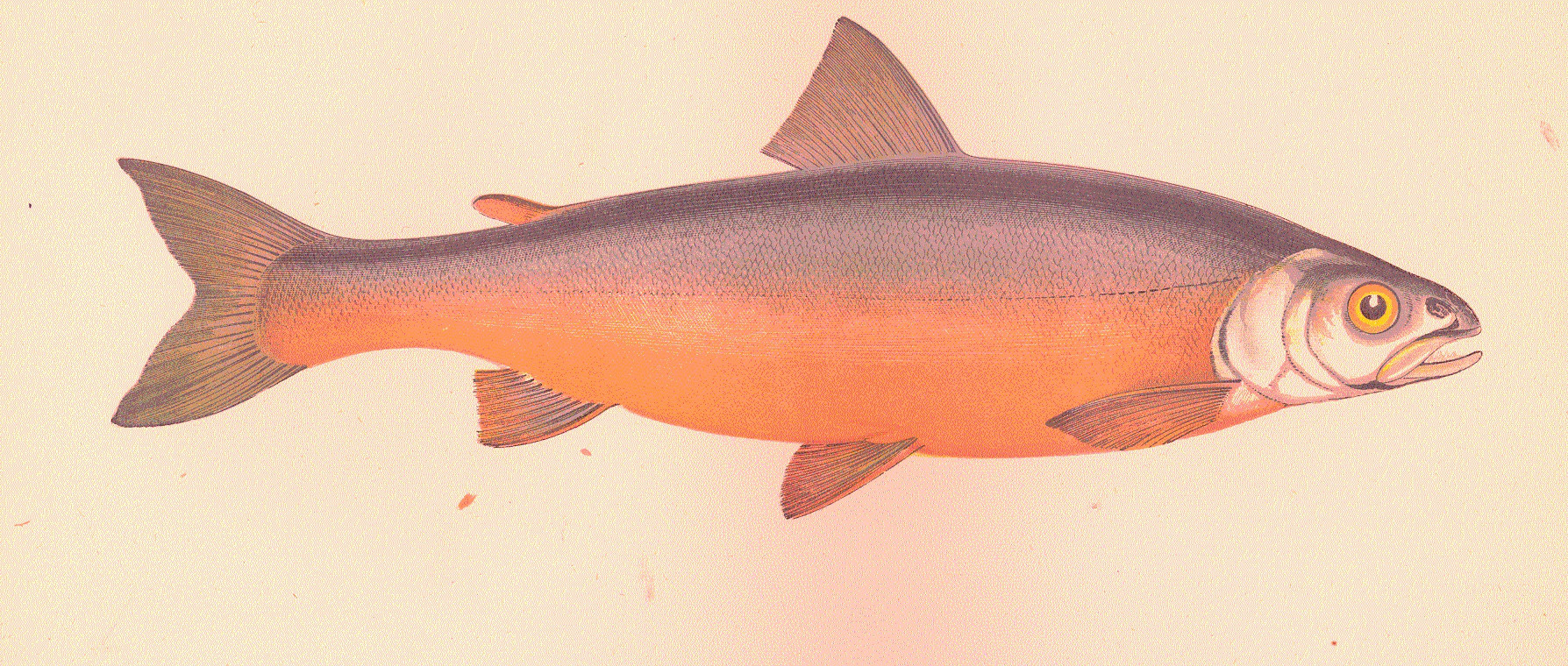 Cole's Char Eniskillen Char Salmo Colei Salvelinus Colei Subject: Chars, Salmo Tag: Fish